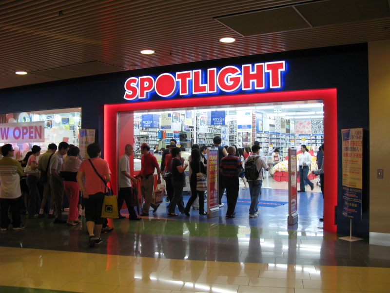 MegaBox Spotlight Store in Hong Kong